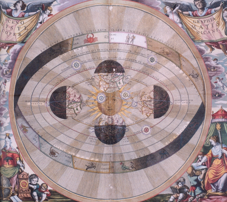 Scenographia Systematis Copernicani (The Copernican System)